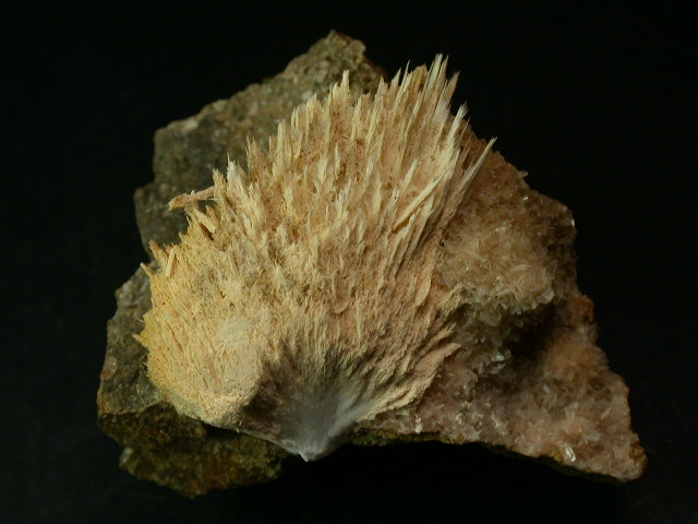 Scolecite Locality: Elk Mountain, Pigeon Springs, Cowlitz County, Washington, USA Original description: A 4.6 by 3.8 cms mass of crystals on matrix. JSS specimen and photo.